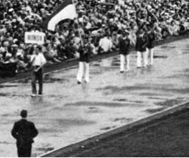 Indonesian delegation at the opening ceremony of Helsinki 1952 Olympics